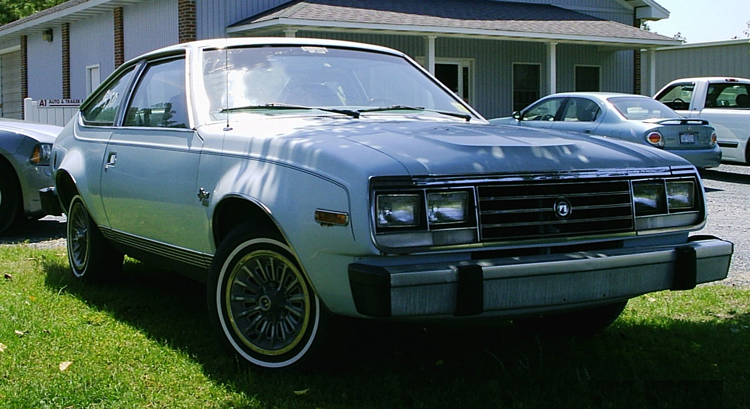 1979 American Motors (AMC) Spirit 2-door liftback, D/L model, finished in light blue